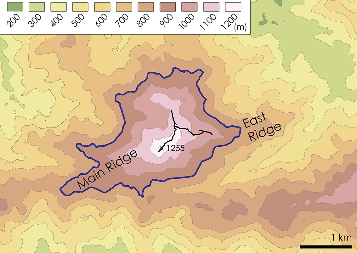 Grand Bois National Park new boundaries detail topographic map